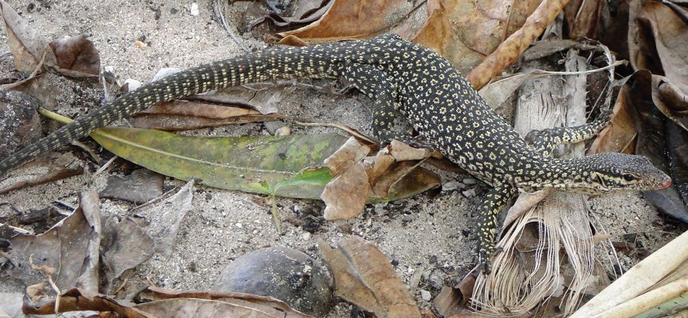 Varanus timorensis. Male from dry coastal forest in Loré, Lautém District.